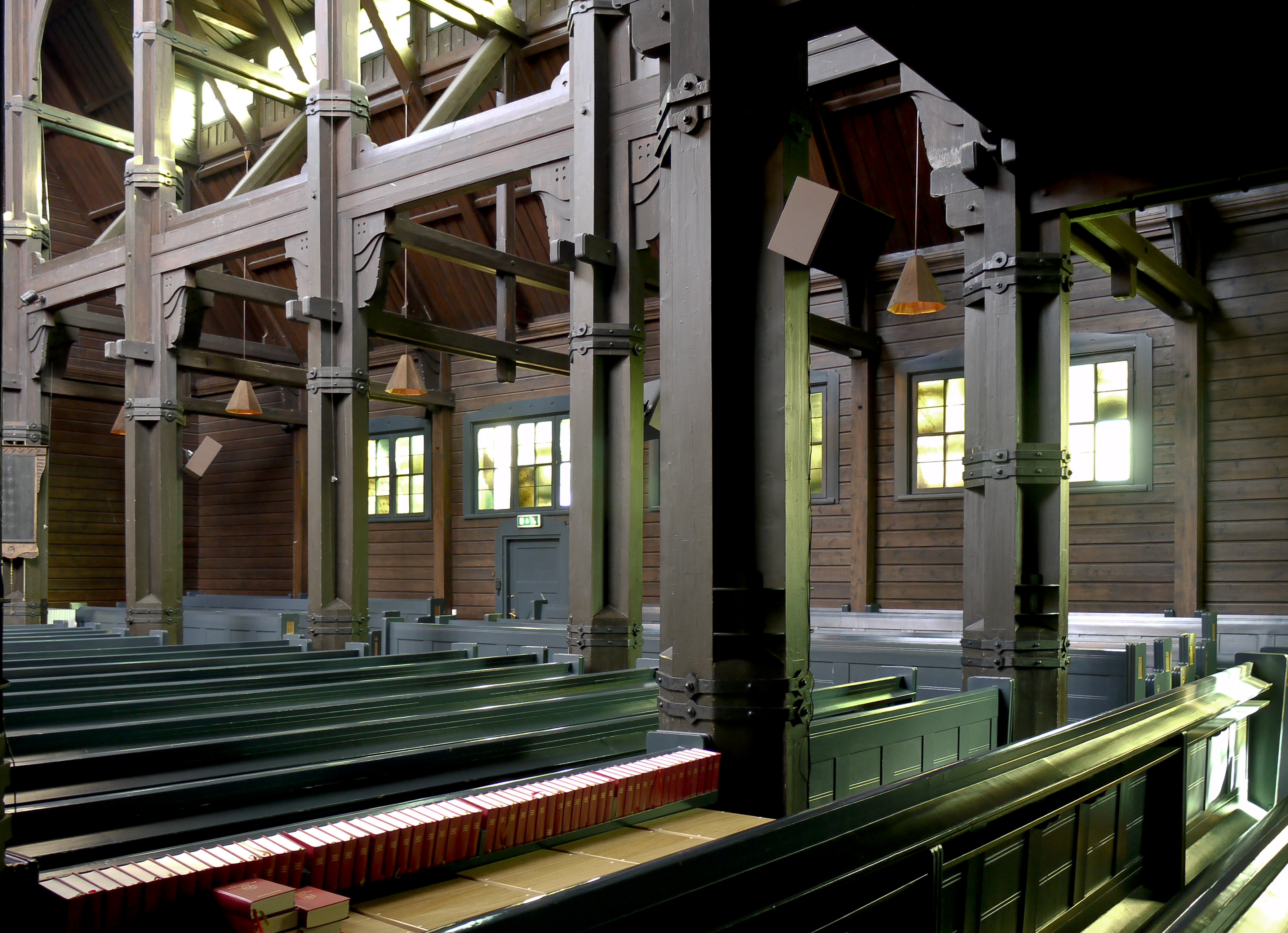 Kiruna kyrka/church, Diocese of Luleå, Kiruna, Sweden. Nave.